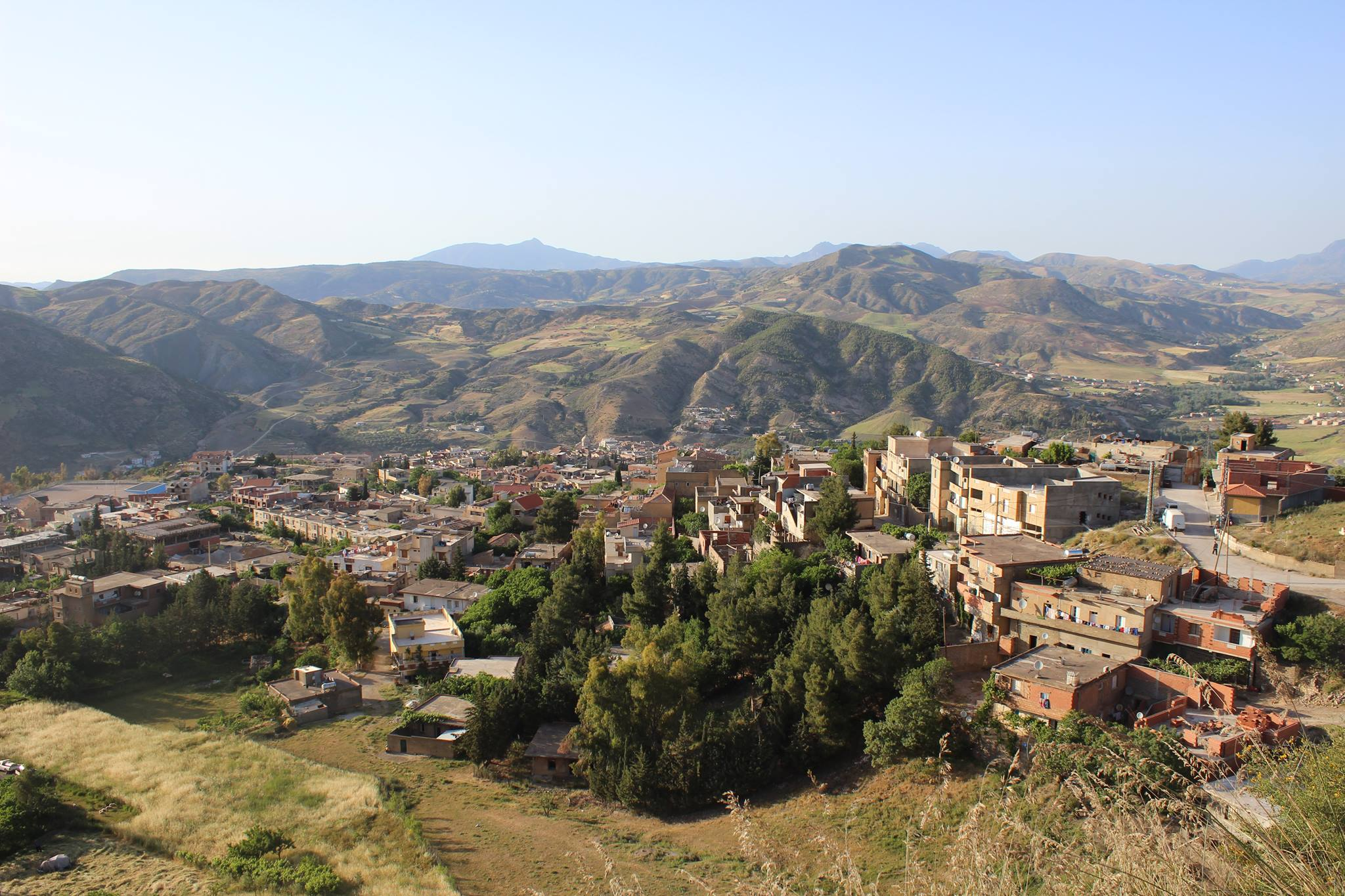 The city of Bougaa is situated 45 Km in the North-West of Setif and 80 Km in South of Bejaia. It's a mountainous area inwhich the slopes are greatly strong. And it's available at a stunning views.